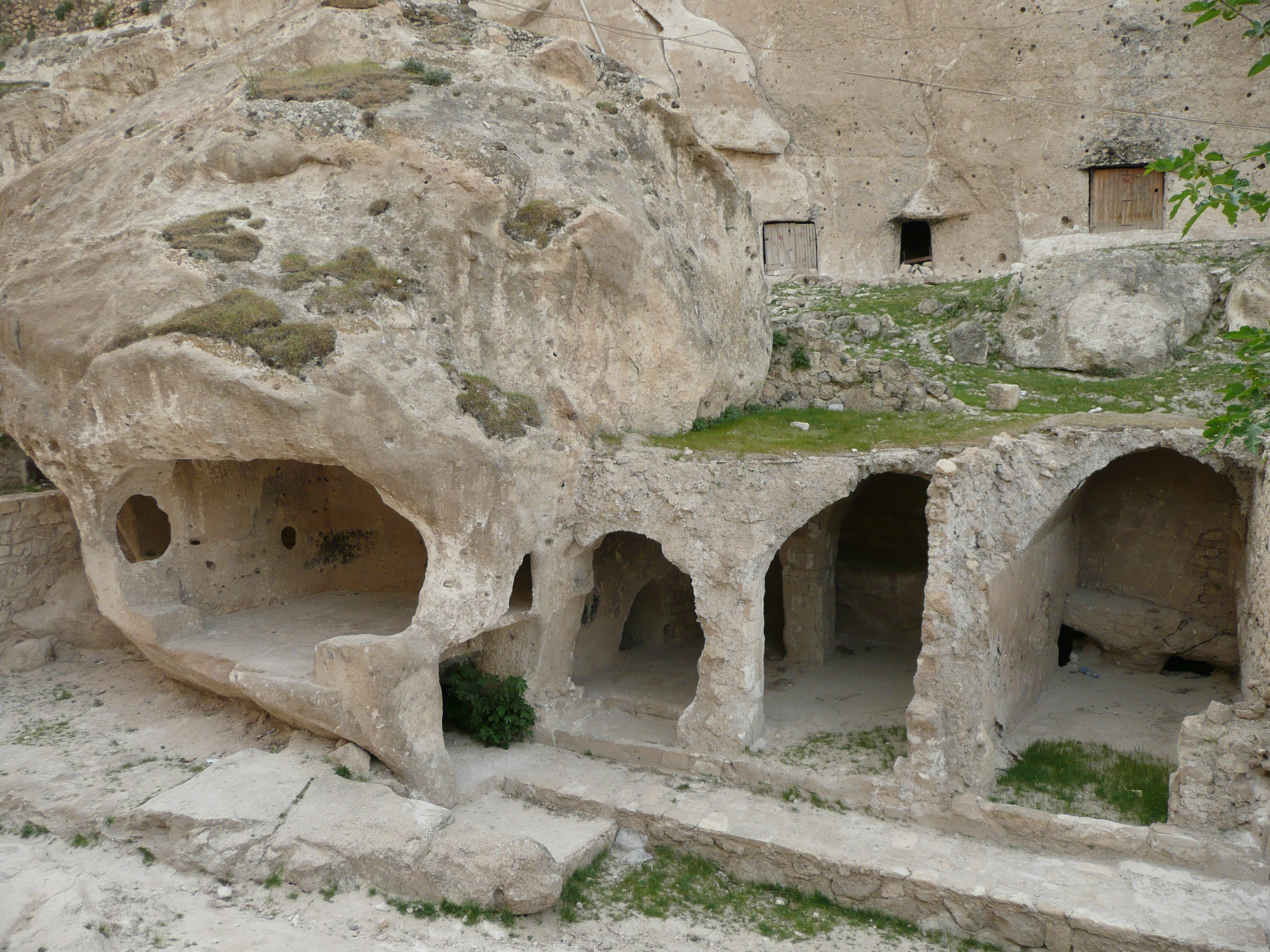 Photographs from Hasankeyf, Batman, Turkey